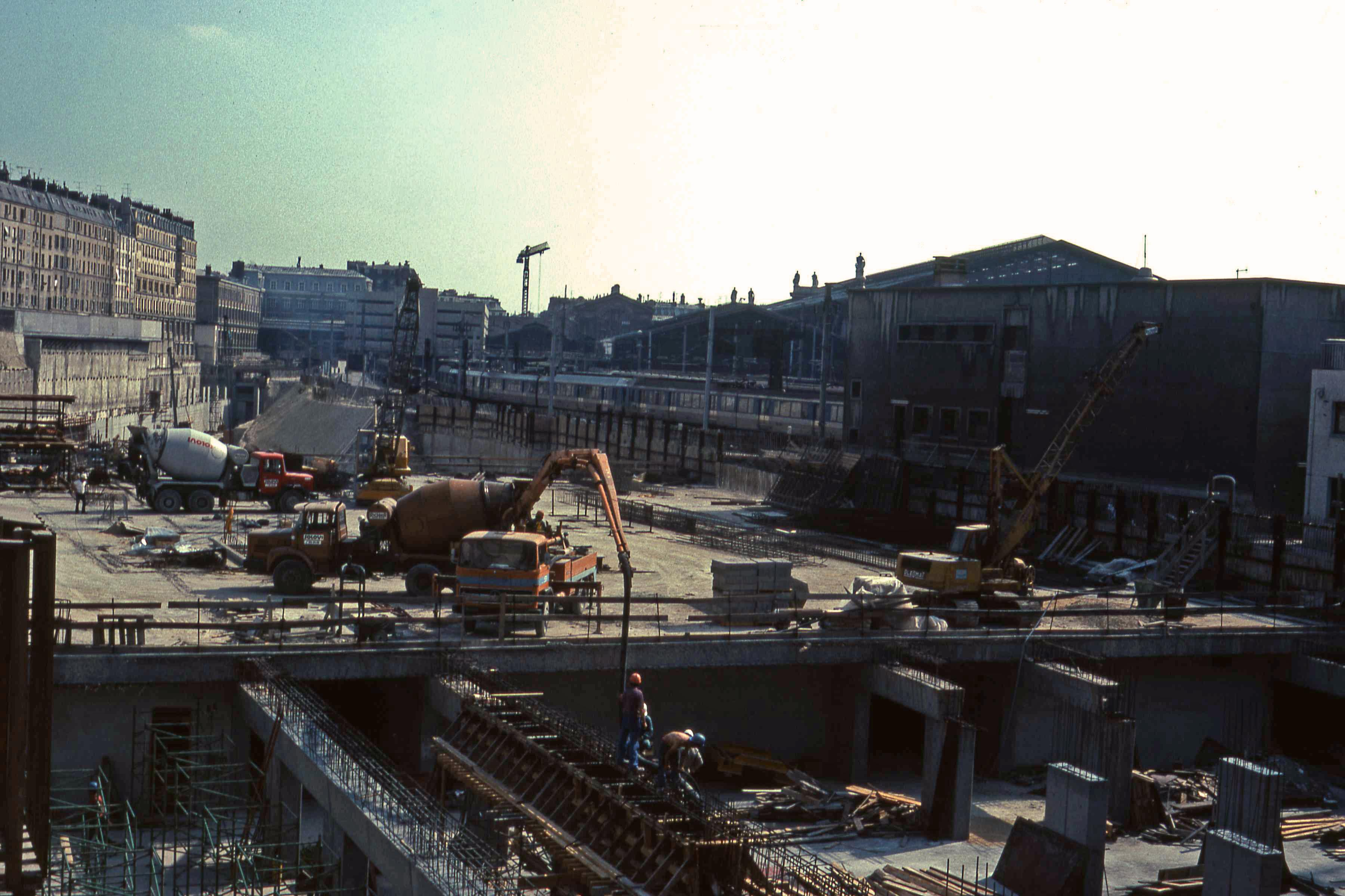 Constructionwork on the subsurface station for the RER at the gare du Nord.